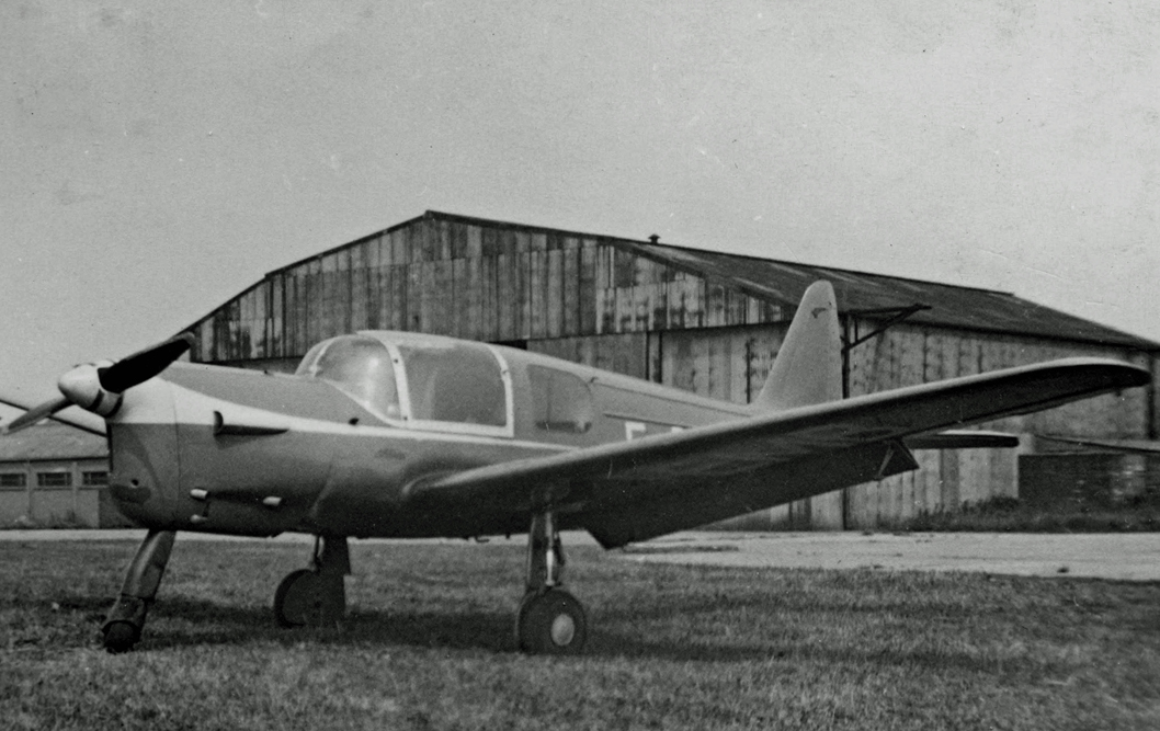 Nord 1203 Norecrin light four-seat French touring aircraft at Sherburn-in-Elmet, Yorkshire.